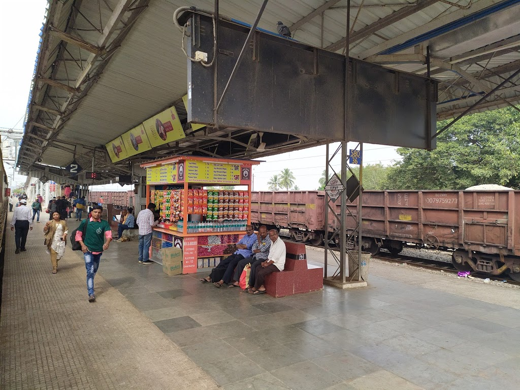 This is the Picture of chatrapur main railway station